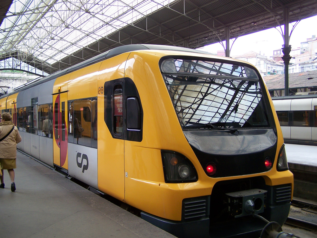 A suburban train of the CP in the Station of São Bento, Porto.